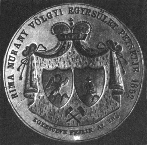 Seal of the Ózd Metallurgical Works, 1852